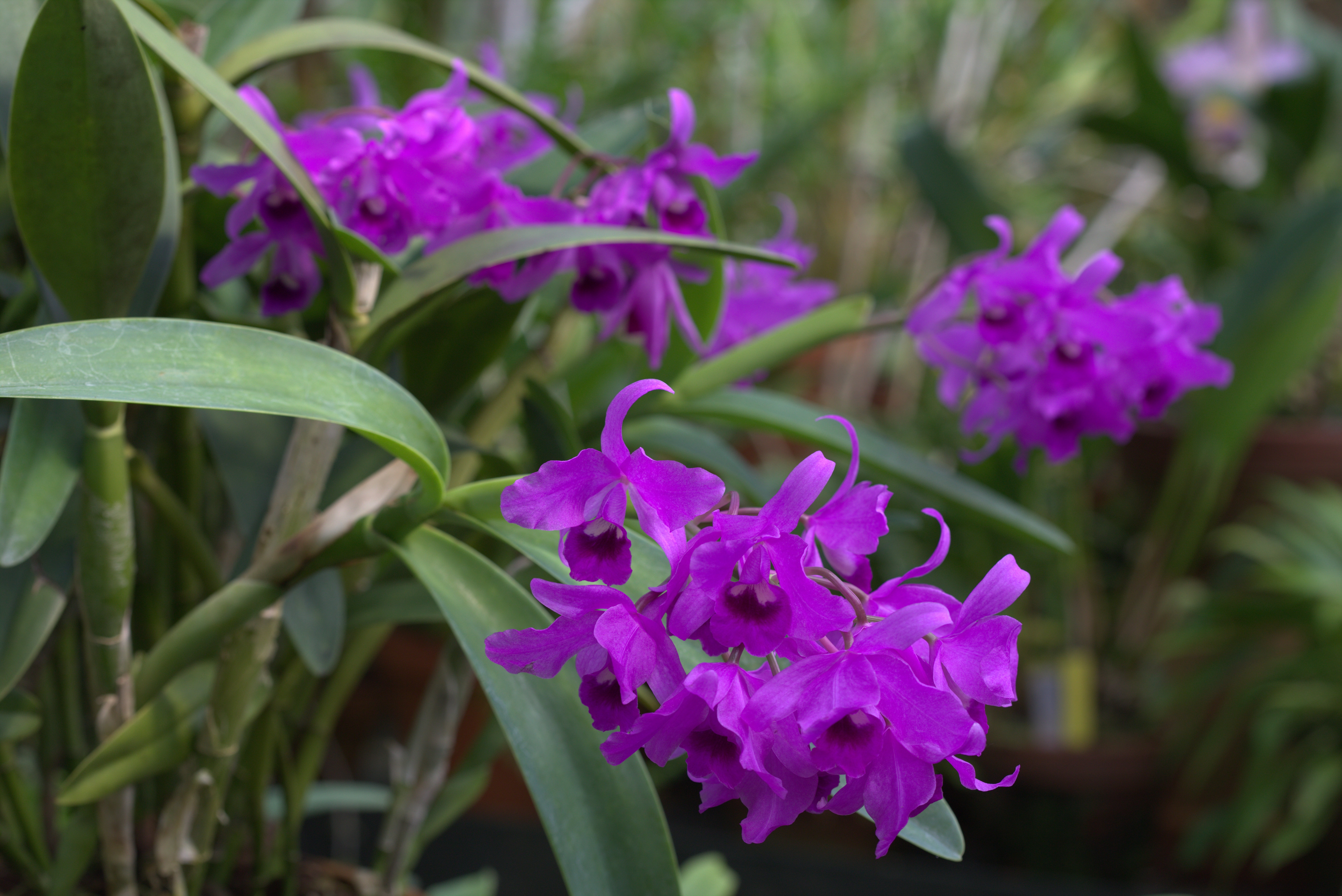 Cattleya bowringiana in Gotheburg Botanical Garden. Plant id: 1965-V3732 p G -- Bergen